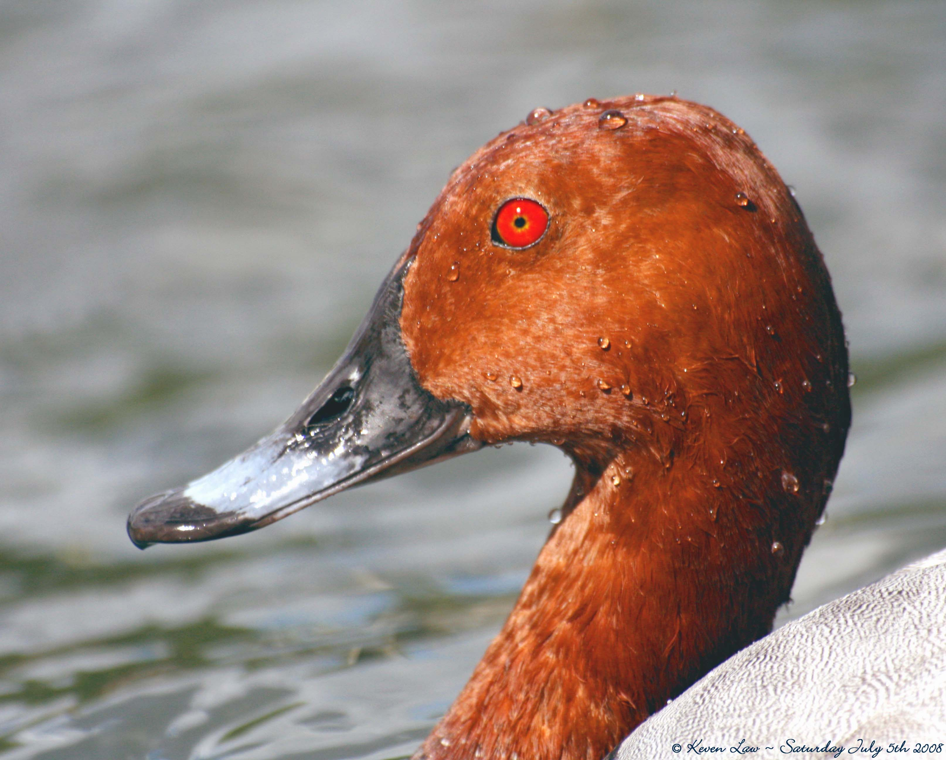 Duck - Regents Park, London, England - Saturday July 5th 2008. Click here to see the Larger image